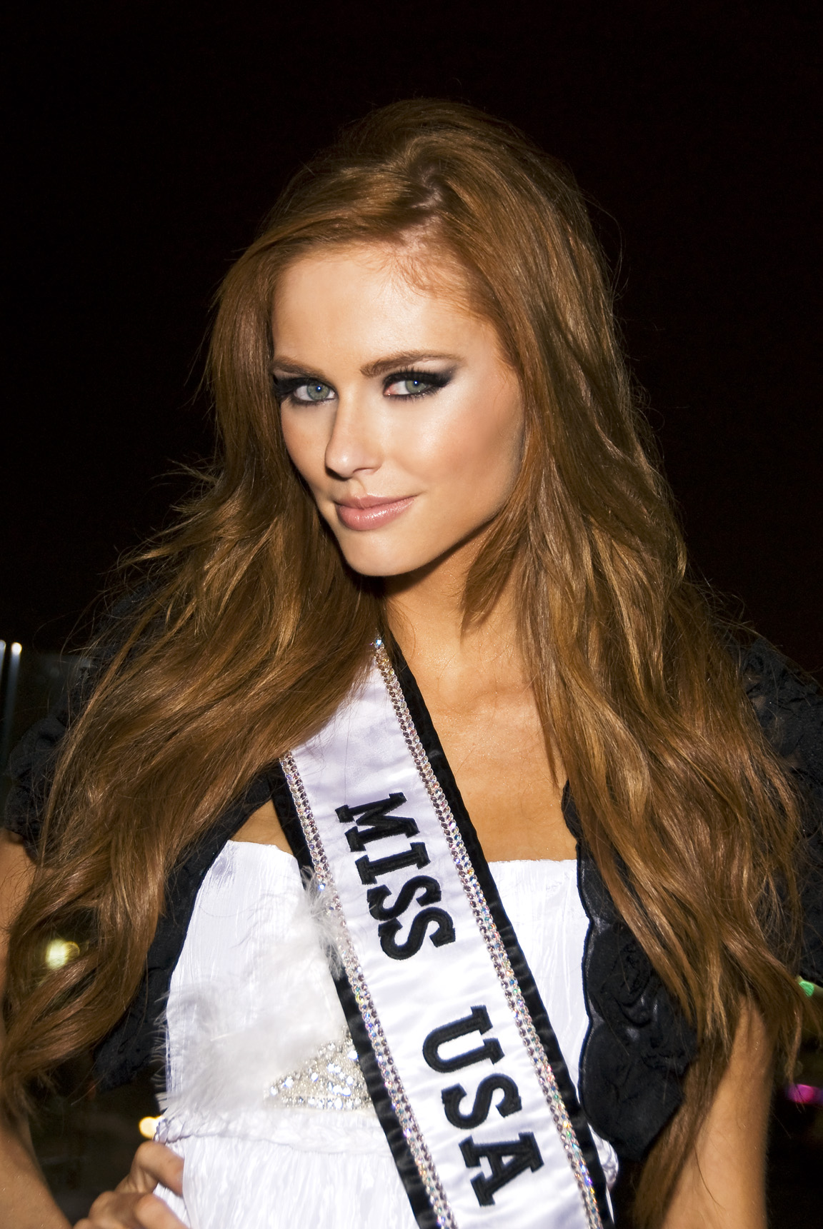 Alyssa Campanella, Hollywood, CA on September 28, 2011 - Photo by Glenn Francis of